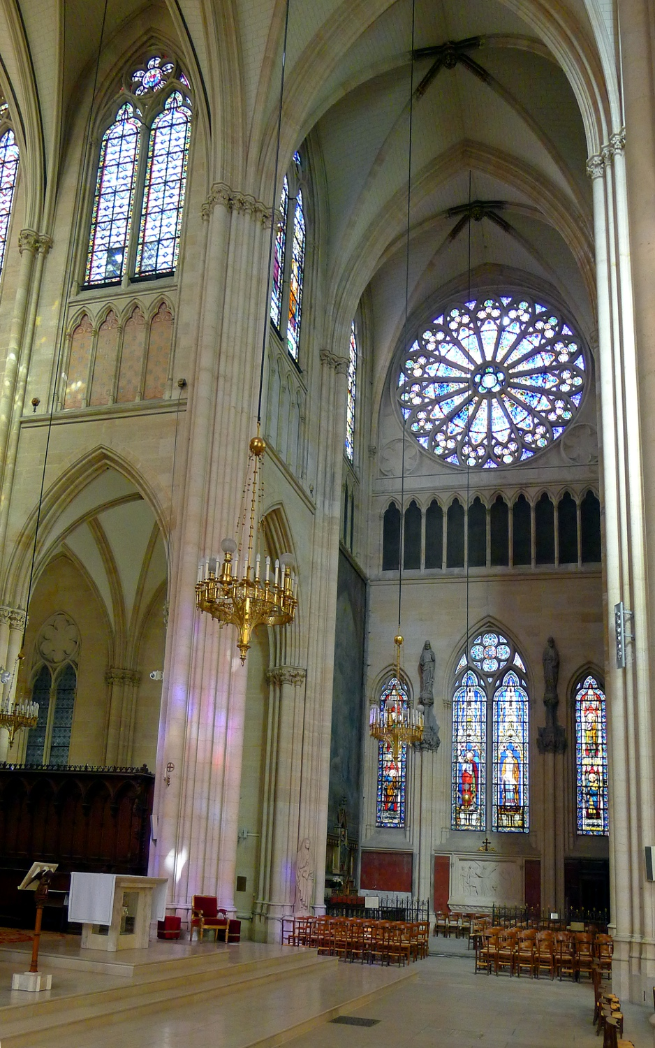 Sainte-Clotilde church - paris